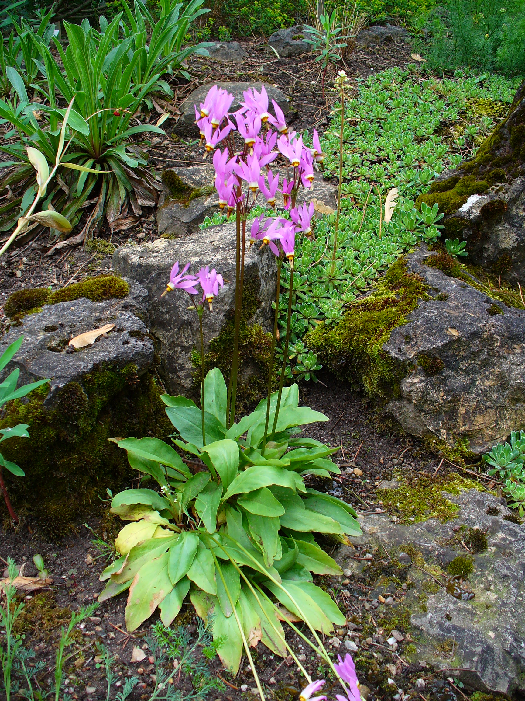 Dodecatheon meadia L. (1753) , Shooting Star, habitus; Botanical Garden KIT, Karlsruhe, Germany.